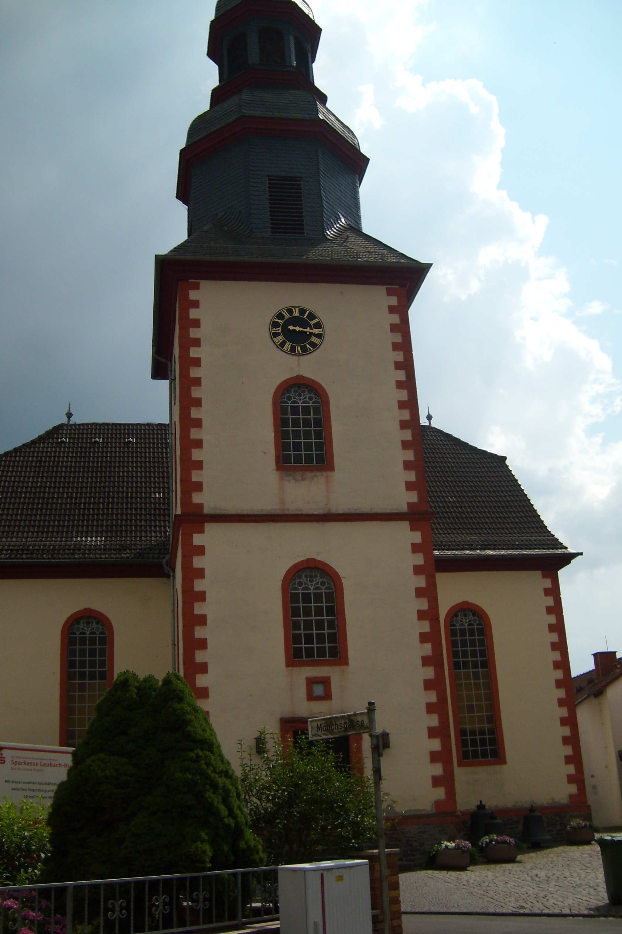 Ruppertsburg, a rural district of Laubach in Hesse - the church.